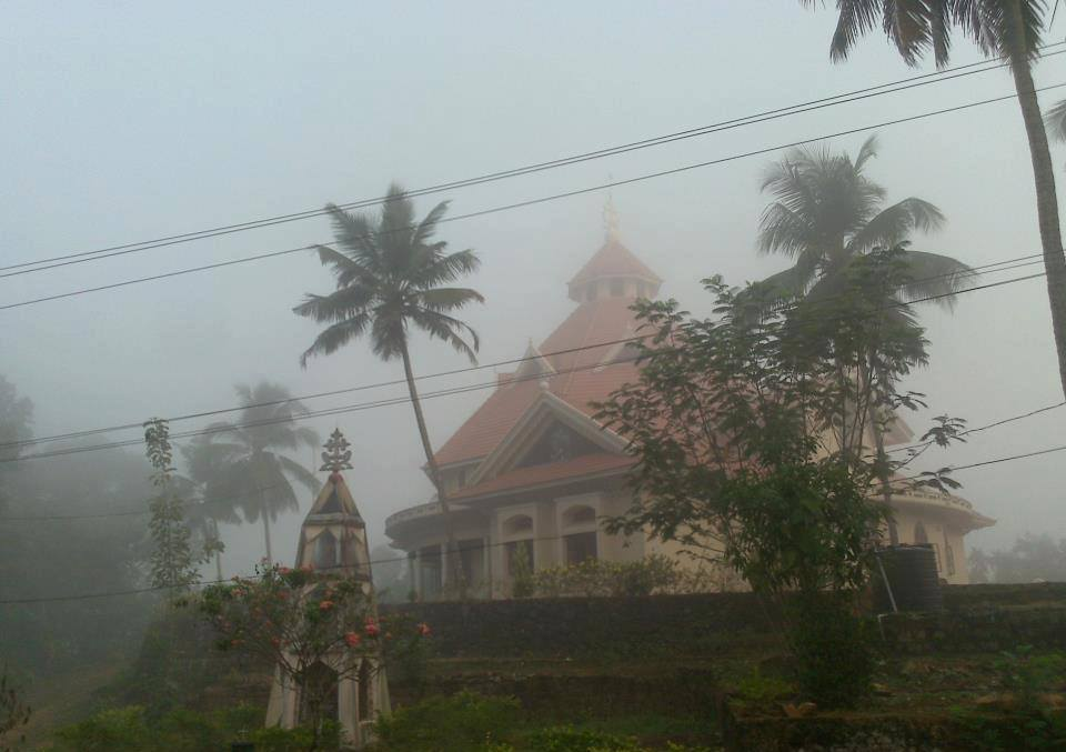 A winter day image of church